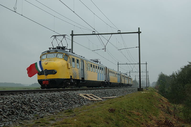 Train 766 for filming 'De Punt' at De Punt.